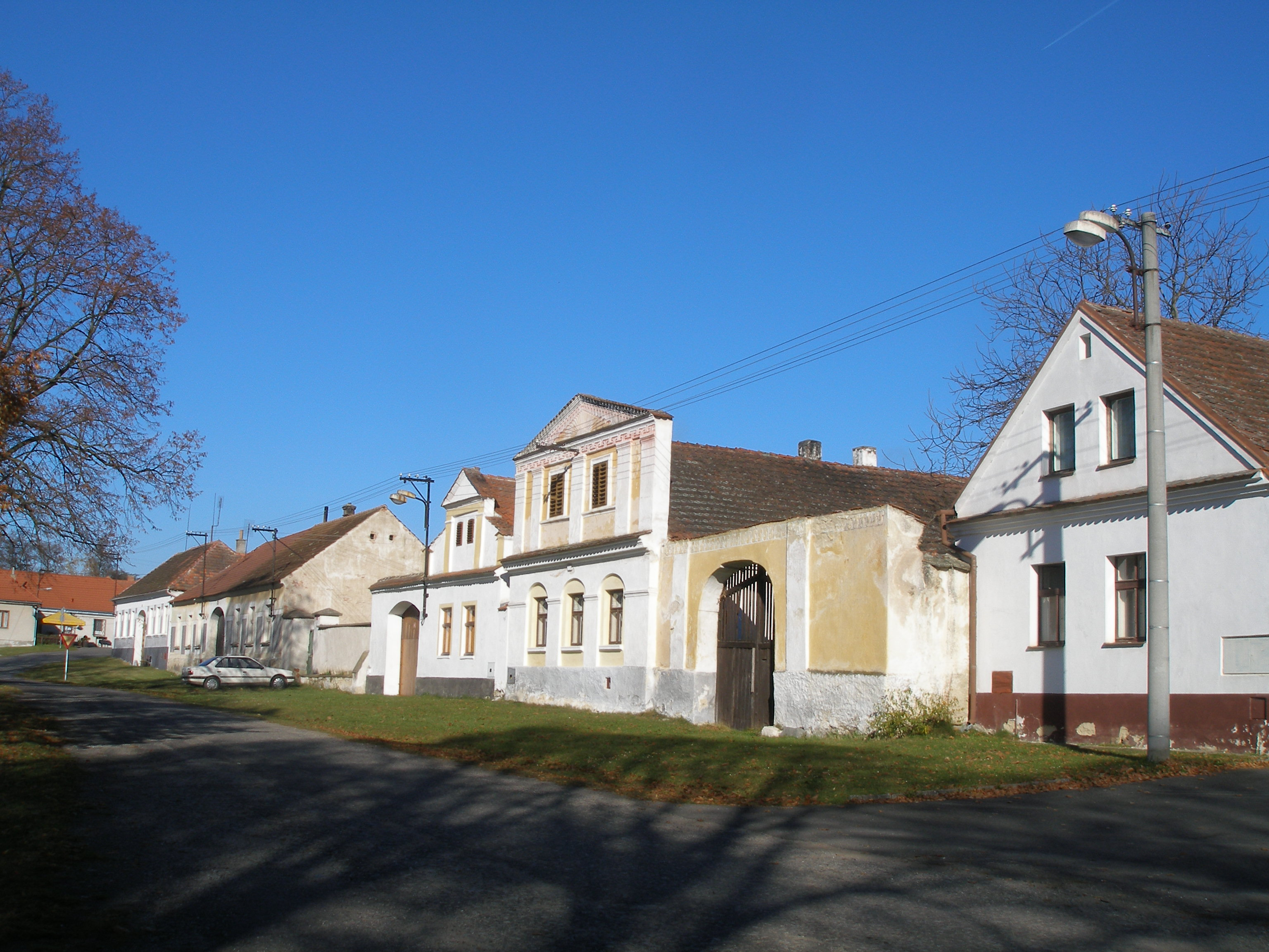 Velká Turná - the Nothern side of the square